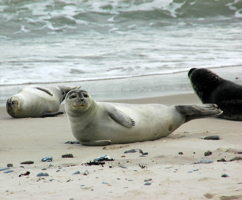 Common Seals on Düne Island